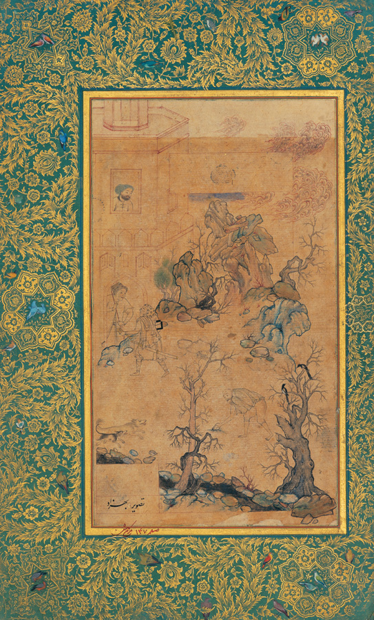 A Line from Moraqqa’-e Golshan p.147, conserved in Golestan Palace, Tehran, Iran.